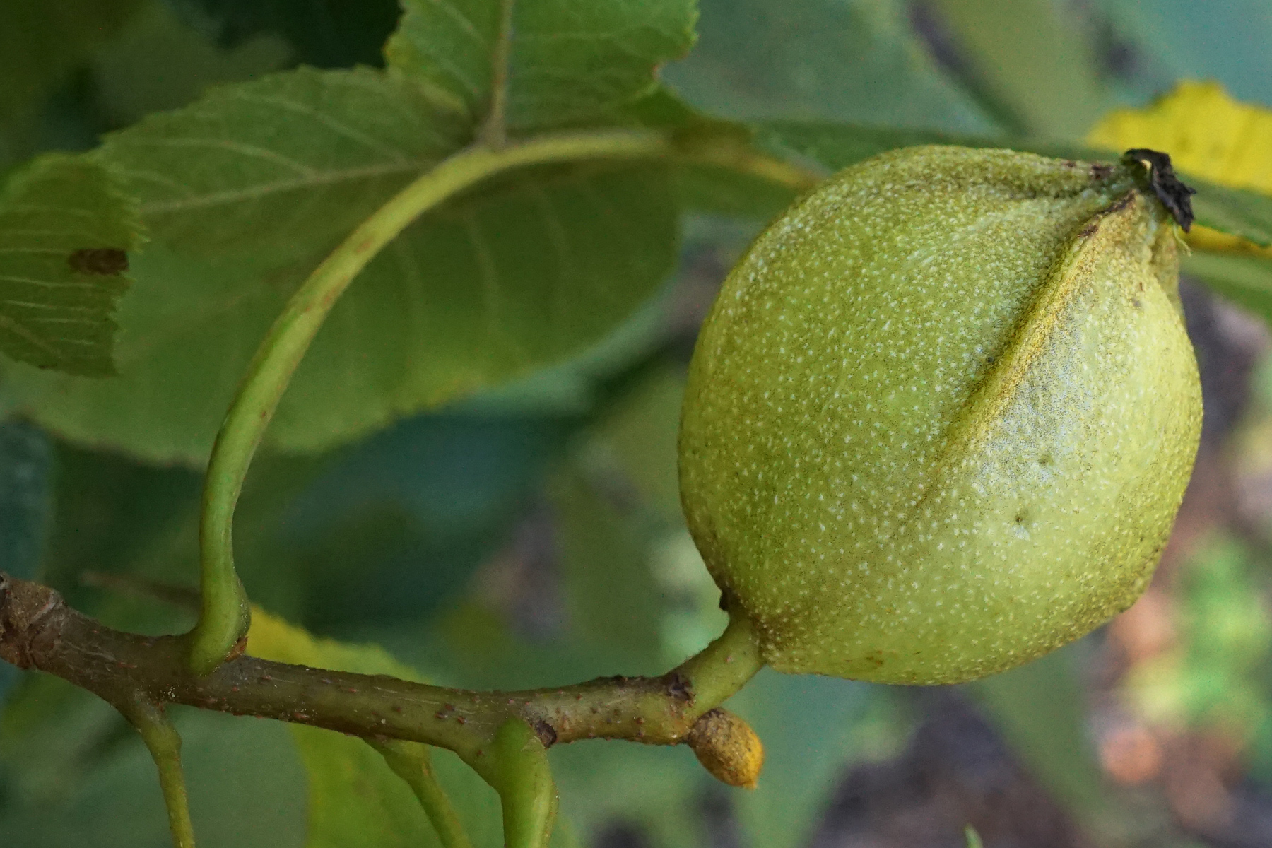 Carya cordiformis (Bitternut Hickory)